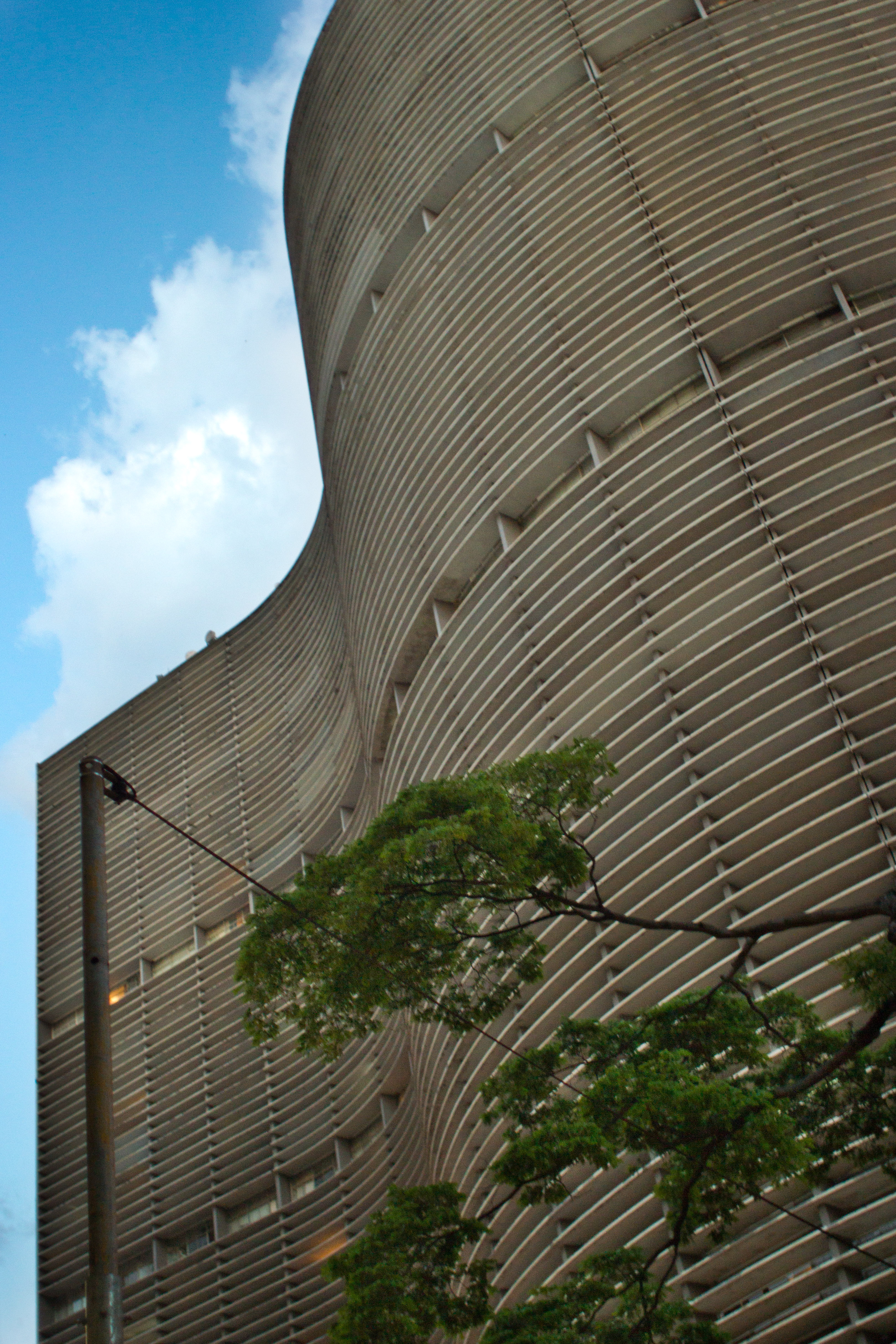 Edifício Copan São Paulo March 2012